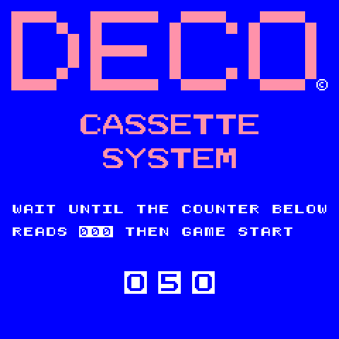 Screenshot of DECO Cassette System BIOS (Arcade, 1980).